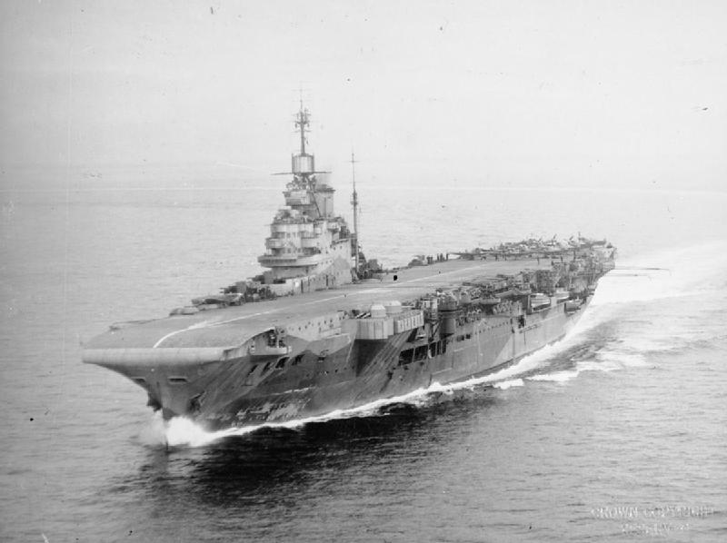 The Royal Navy aircraft carrier HMS Indomitable underway.